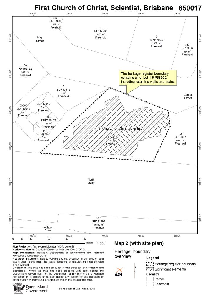 650017 First Church of Christ, Scientist, Brisbane - Map 2 (2016)